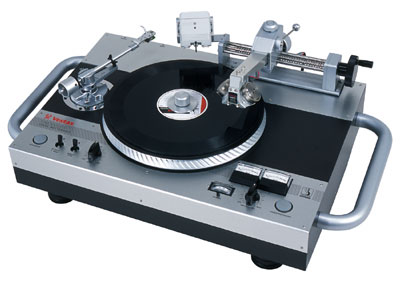 Vinyl cutter Vestax VRX-2000.